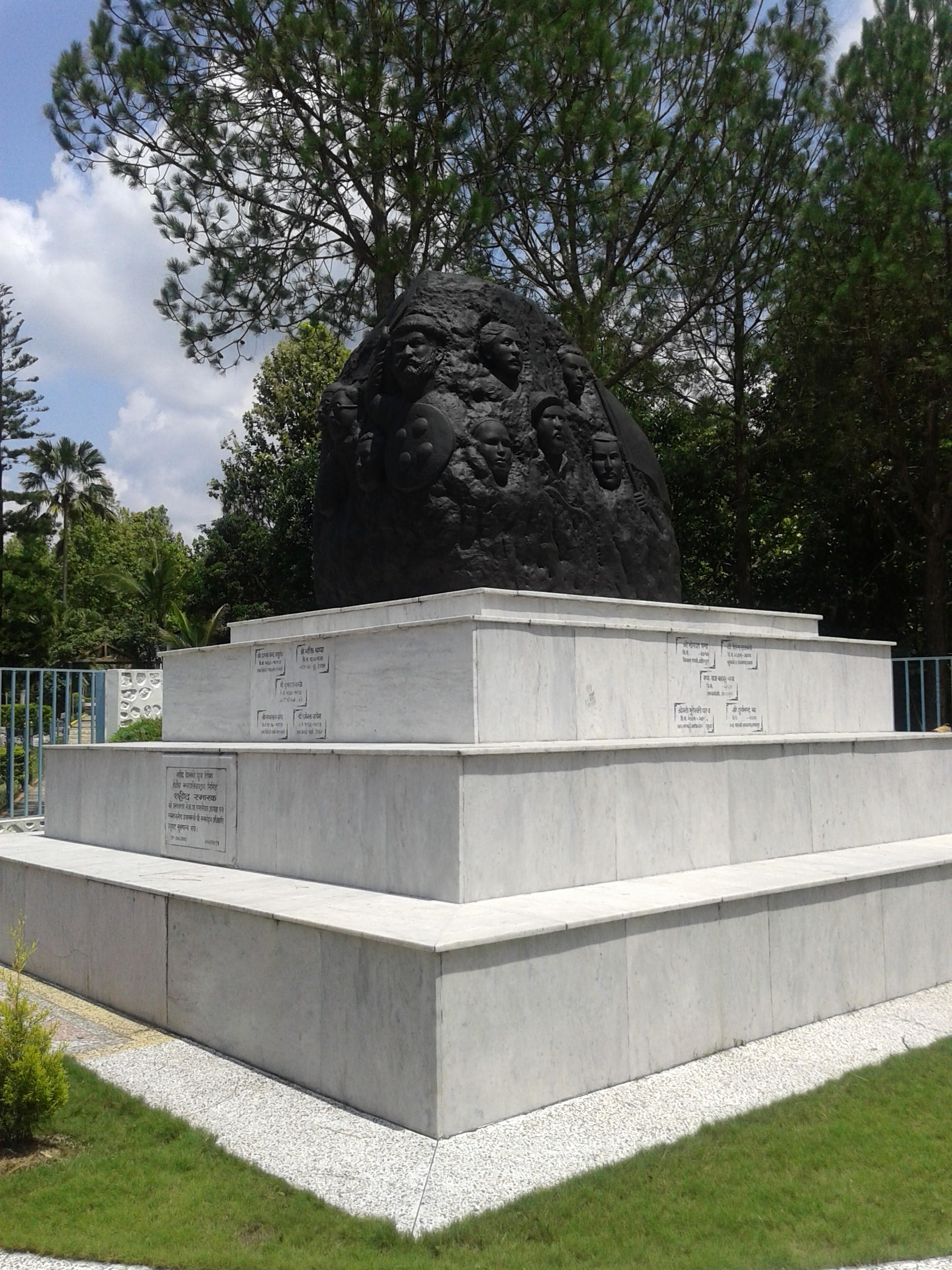 Martyrs